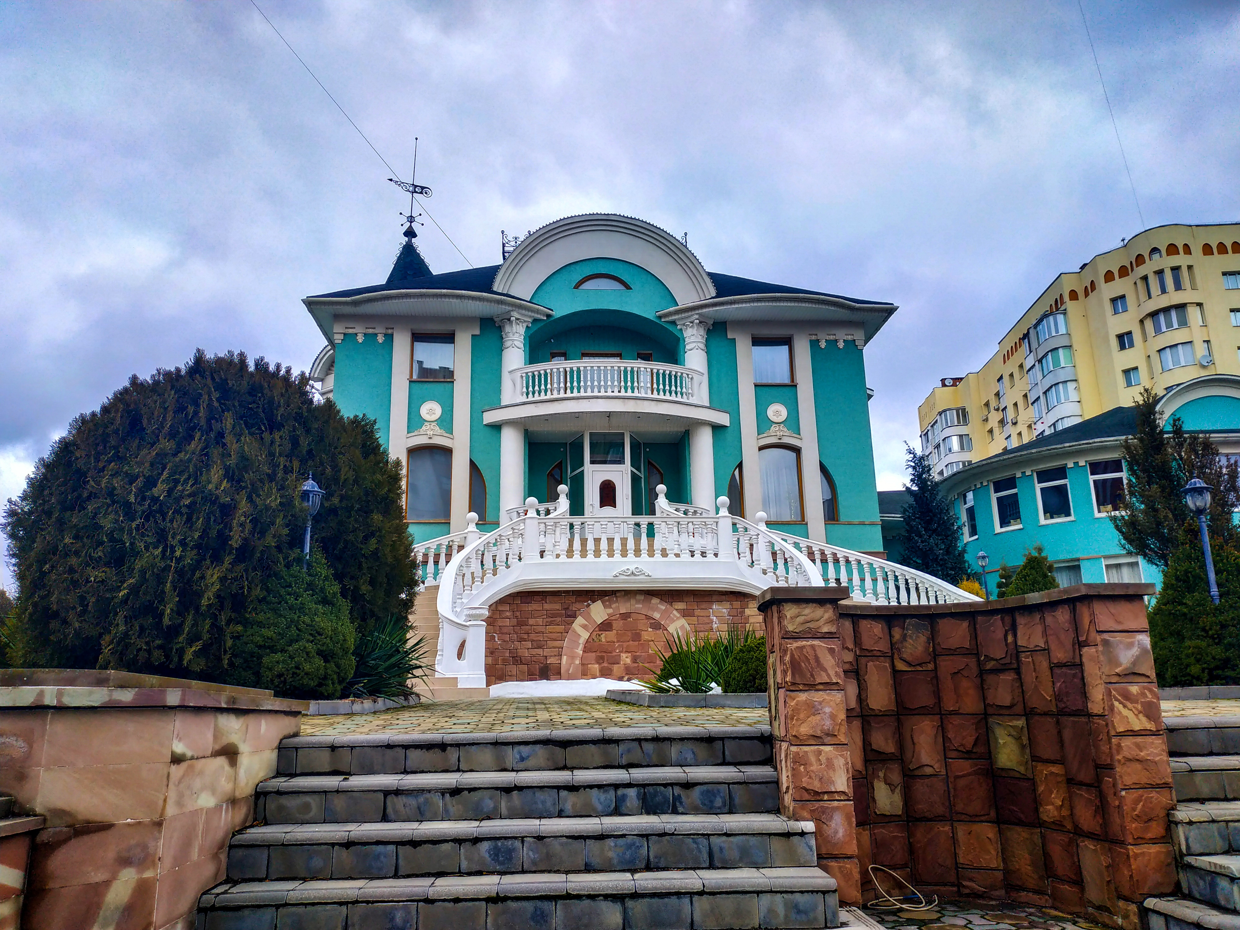 Restaraunt